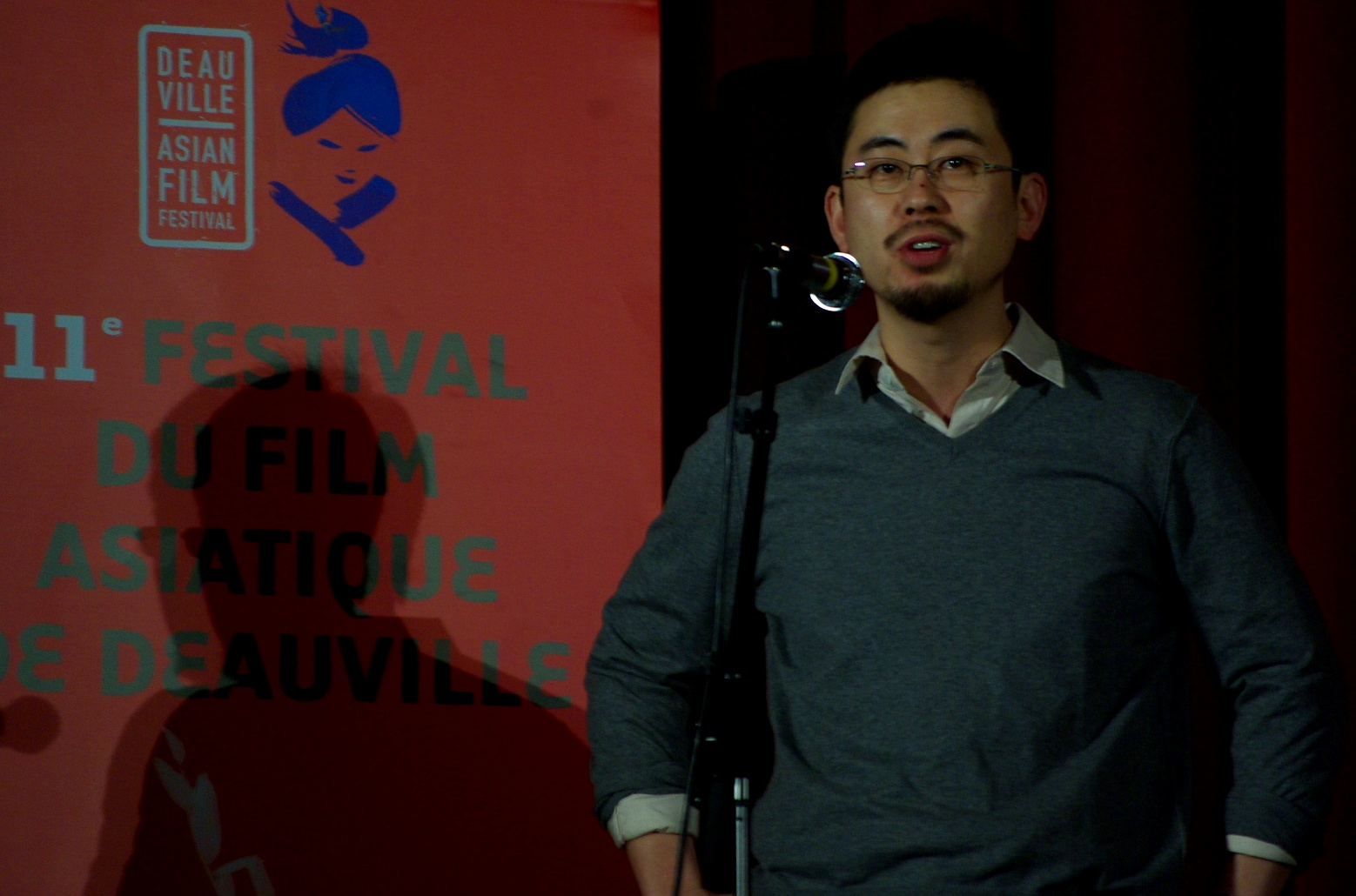 Na Hong-jin in Deauville Asian film festival.